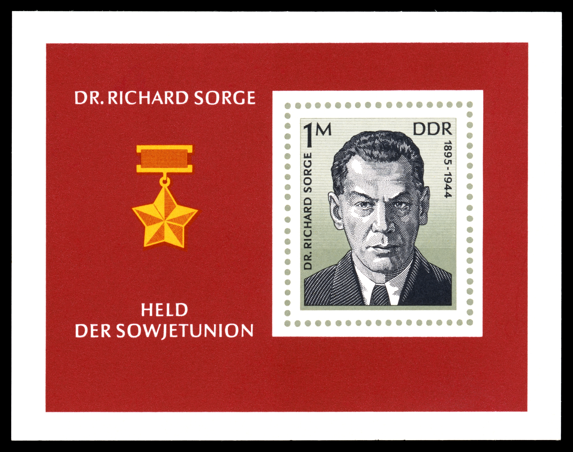 Ausgabepreis: 100 Pfennig First Day of Issue / Erstausgabetag: 3. Februar 1976 Auflage: 2.100.000 Entwurf: Stauf Druckverfahren: Offsetdruck Michel-Katalog-Nr: Ländercode-MiNr: Block 44 Licensing This file is most likely NOT in the public domain. It has been marked for review, and will be deleted in due course if the review does not find it to be in the public domain. This file was previously considered to be in the public domain as a German stamp; it is possible that it is in the public domain for other reasons, in which case a new rationale will be applied as part of the review process. See below for the previous rationale. Previous public domain rationale, no longer applicable This stamp is in the public domain in Germany because it was released by the postal administration of the German Democratic Republic or the Soviet occupation zone (Deutschen Post der DDR) whose legal successor is the Federal Republic of Germany. Thus it is an official work according to German copyright law (§ 5 Abs. 1 UrhG).